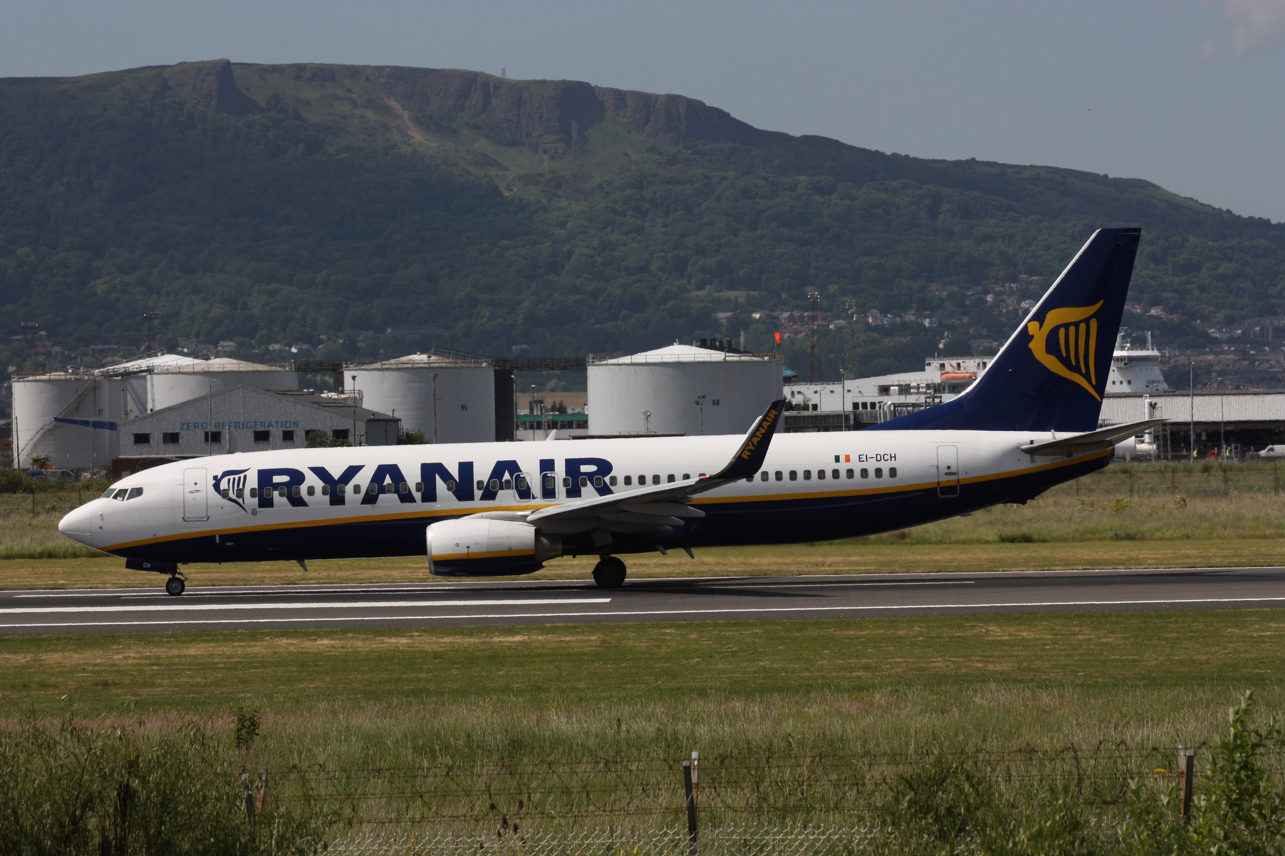 Ryanair Boeing 737-800 aircraft (EI-DCH), Belfast City Airport, Belfast, Northern Ireland, June 2010